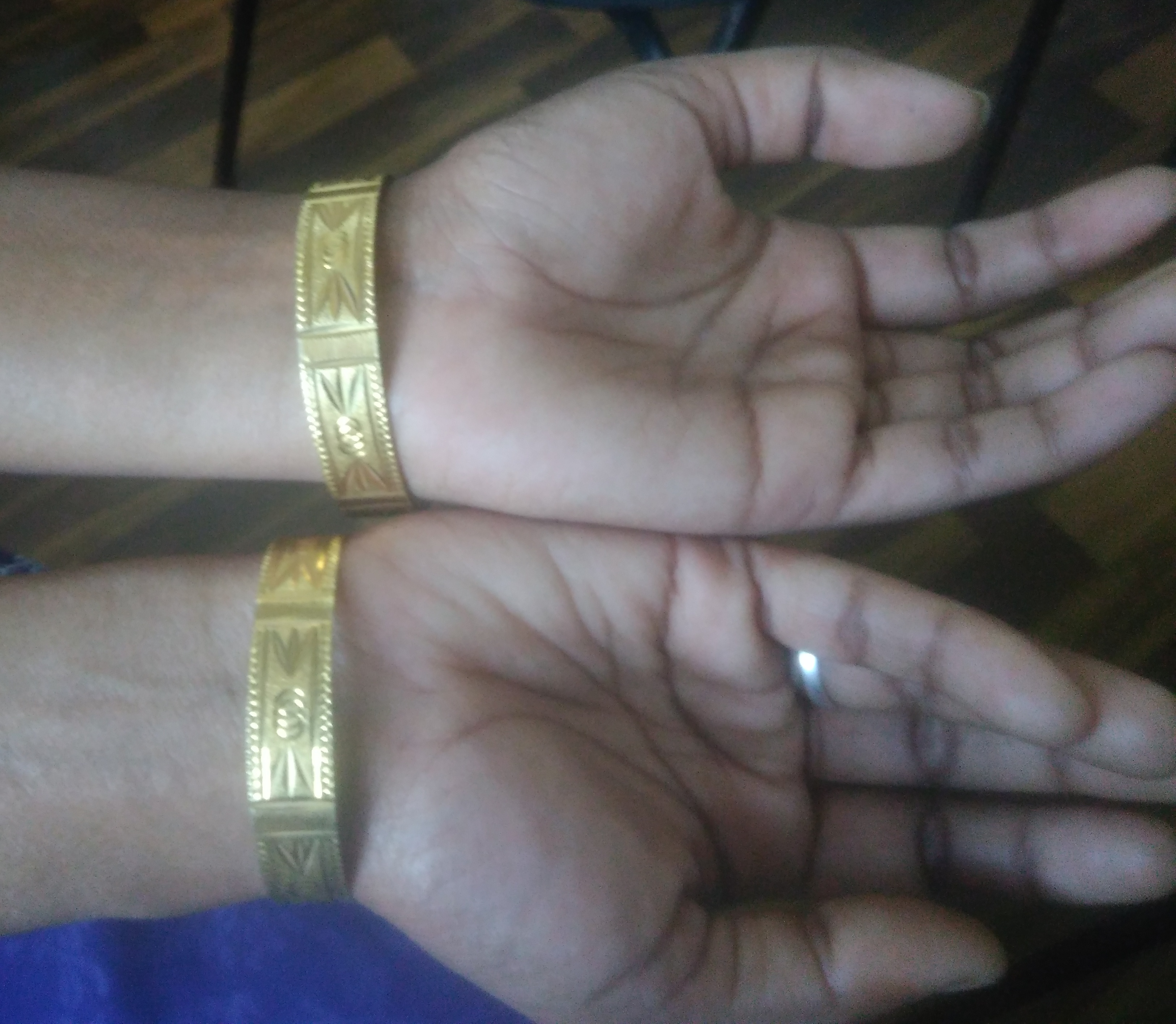 पाटल्या